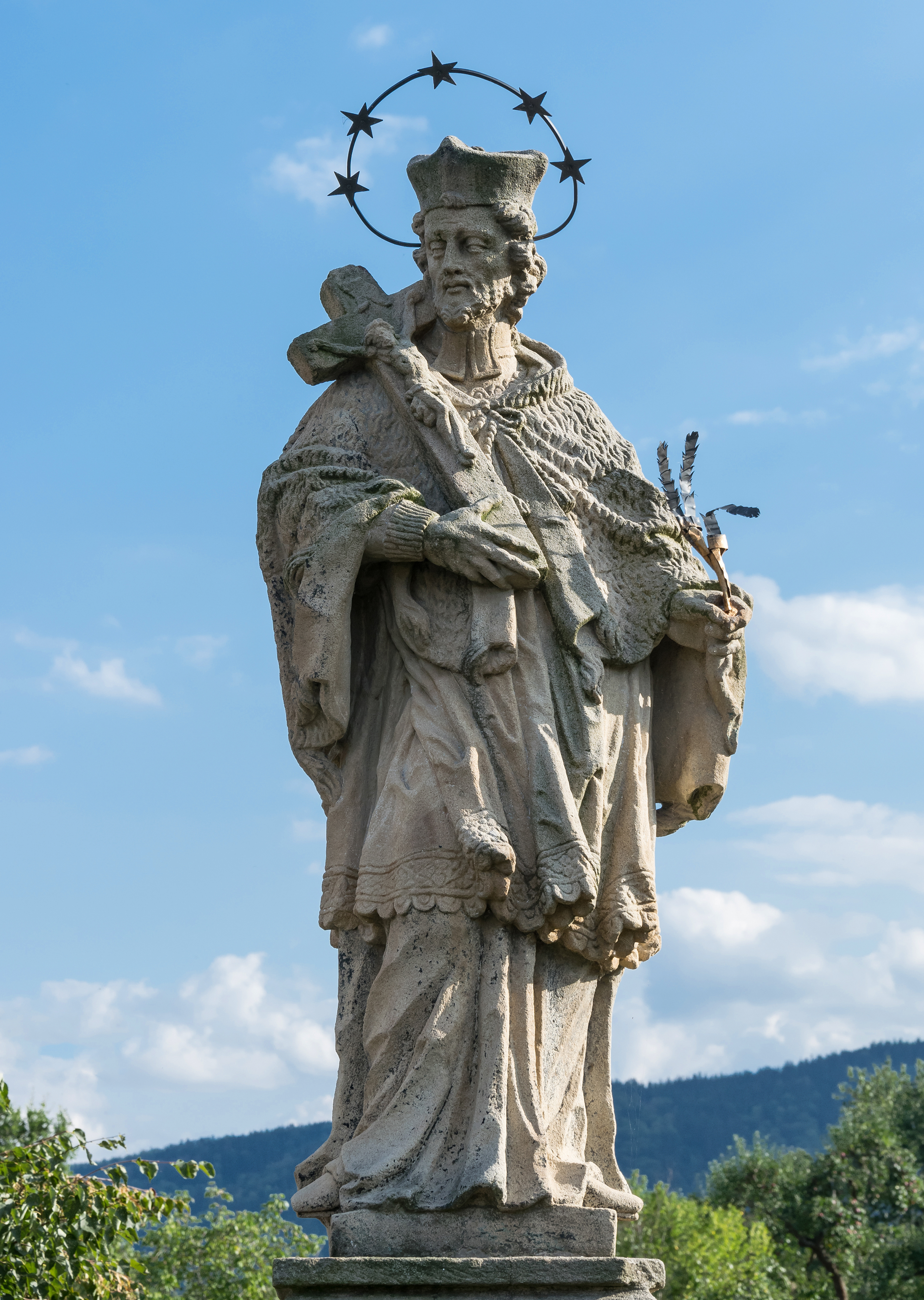 Statue of John of Nepomuk in Nowa Łomnica